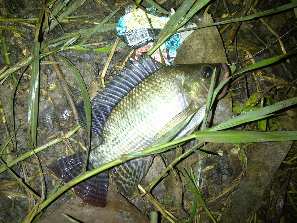 Tilapia of Bangladesh